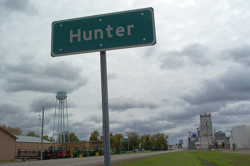 HunterNorthSign